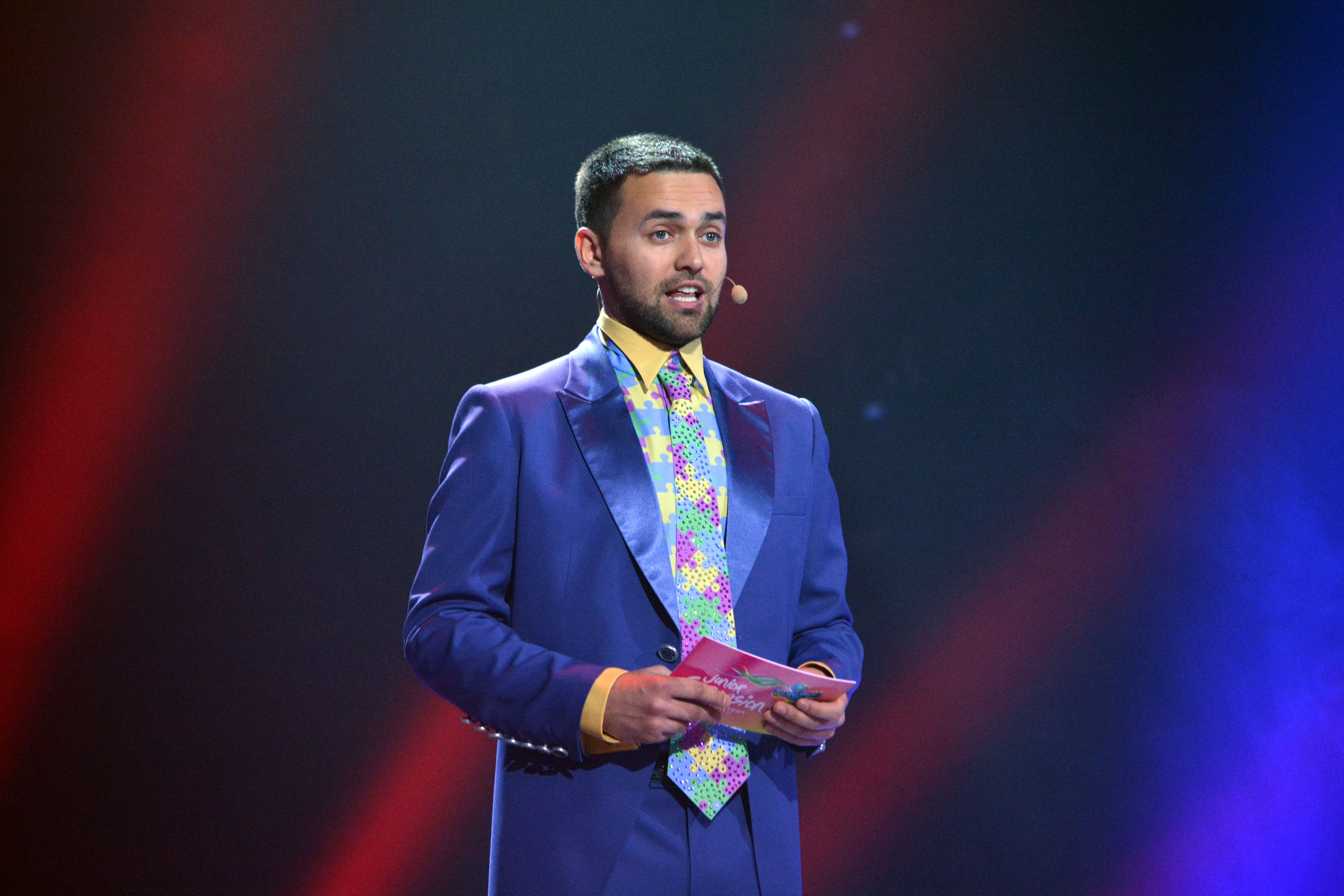 Timur Miroshnychenko at JESC 2013 2nd general rehearsal